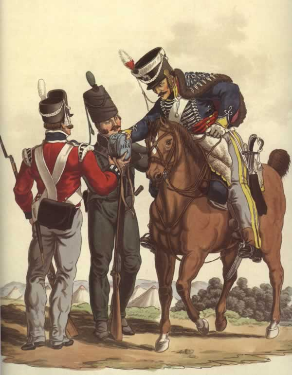 King's German Legion line infantry, 2nd btn light infantry, 3rd hussars.